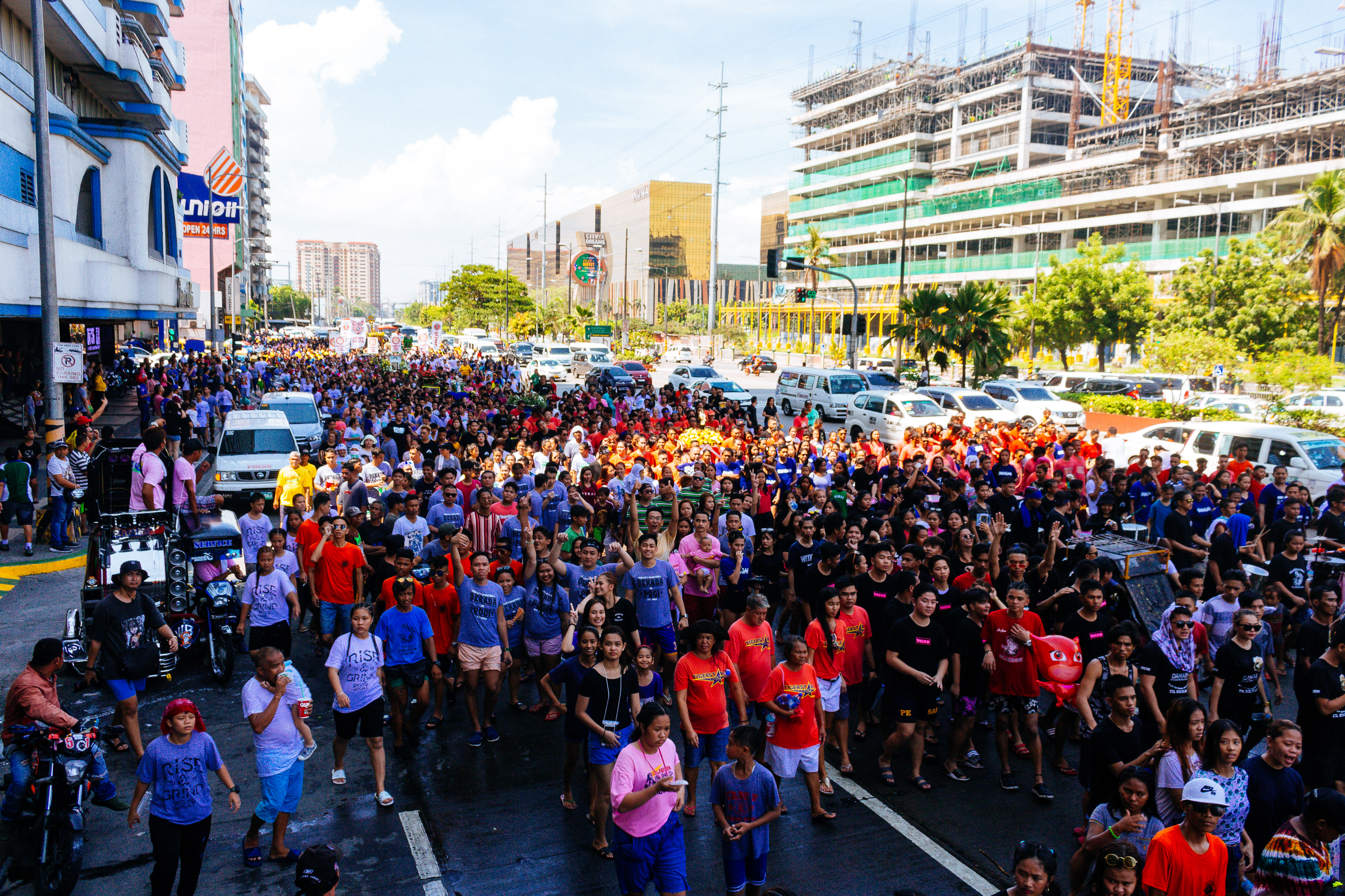 Karakol 2019 at Baclaran 2 Roxas Boulevard Based "IMG_1051-2"; 1/100 sec at f/10, ISO 100, Landscape, 0 EV, Pattern Metering, 18 mm Focal Length, no flash, Yellow, 4 Star/s Rating; Shot at Chateau de Baie Compound, Roxas Boulevard, Baclaran, Parañaque, Metro Manila. (14°31'40" N 120°59'38" E, 23.1 ft); Taken Last May 19, 2019 10:07:18 AM; Uploaded on May 23, 2019 6:27:18 AM; Photo by Glendale Lapastora. All Rights Reserved.